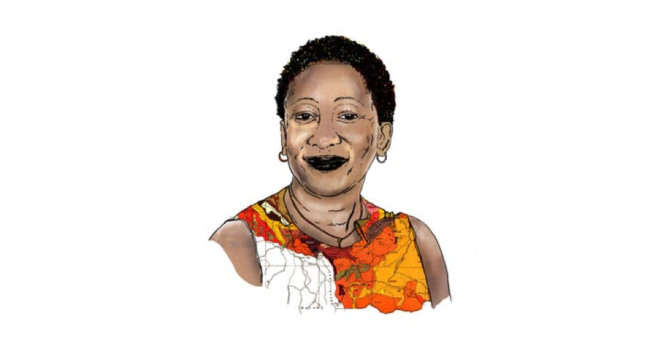 Dr. Victoria Heilman. Kielezo wa Dev Aswala.